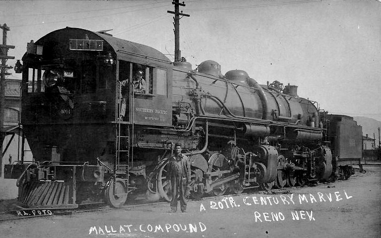 Postcard photo of a Southern Pacific Railroad Mallet compound steam locomotive used for freight service.